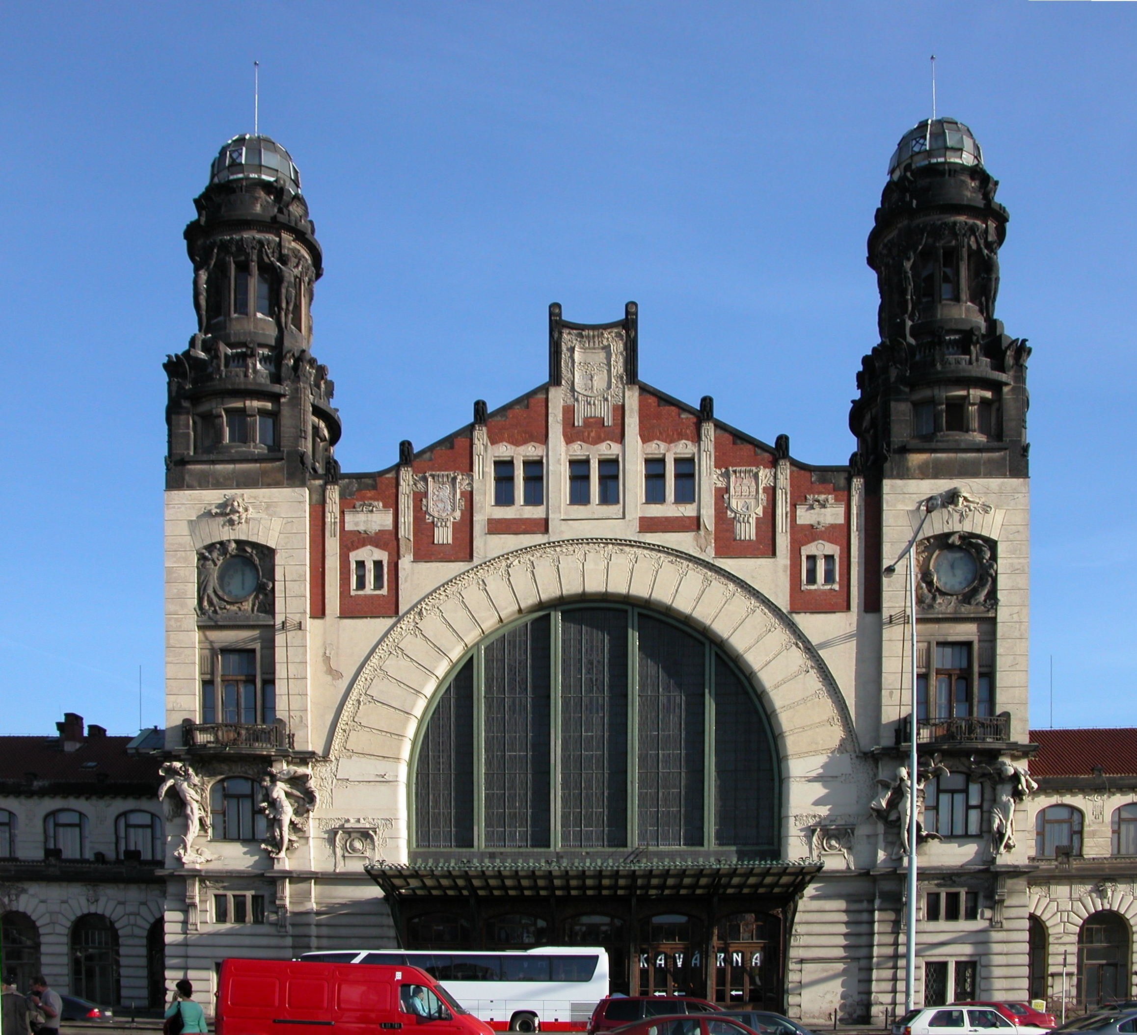 Prague, Czech Republic: Entrance to old hall of Prague’s Central station. Currently Fanta's café (Fantova kavárna)